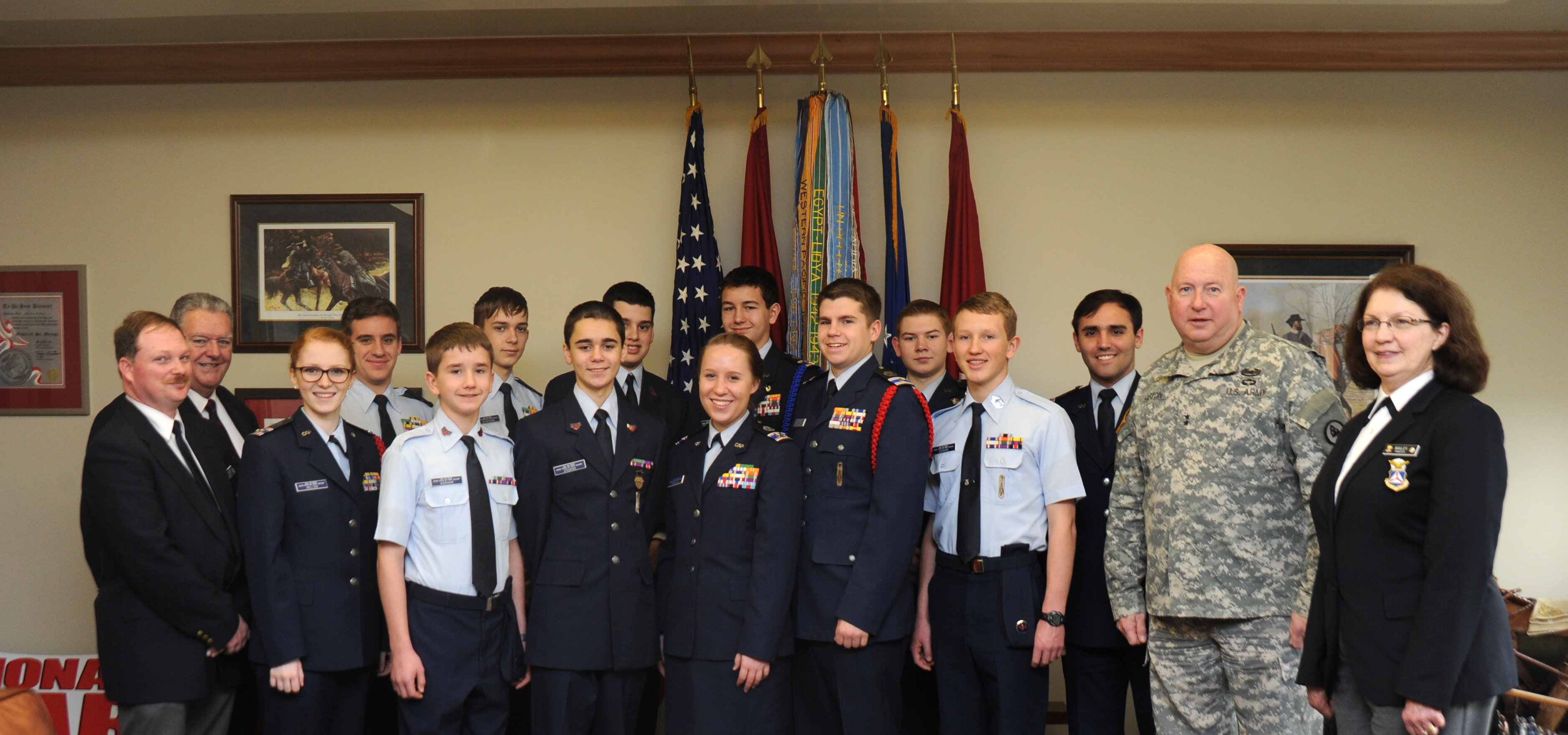 Cadets and senior members with the Tennessee Wing Civil Air Patrol got a chance to sit down and talk with Maj. Gen. Haston, the adjutant general, today, as part of the CAP's Civic Leadership Academy. The Civic Leadership Academy aims to foster cadet officers’ civic growth by increasing their leadership skills, sense of civic responsibility and overall interest in the democratic process. CAP is the volunteer, nonprofit auxiliary of the U.S. Air Force. Its three missions are to develop its cadets, educate Americans on the importance of aviation and space, and perform live-saving humanitarian missions.